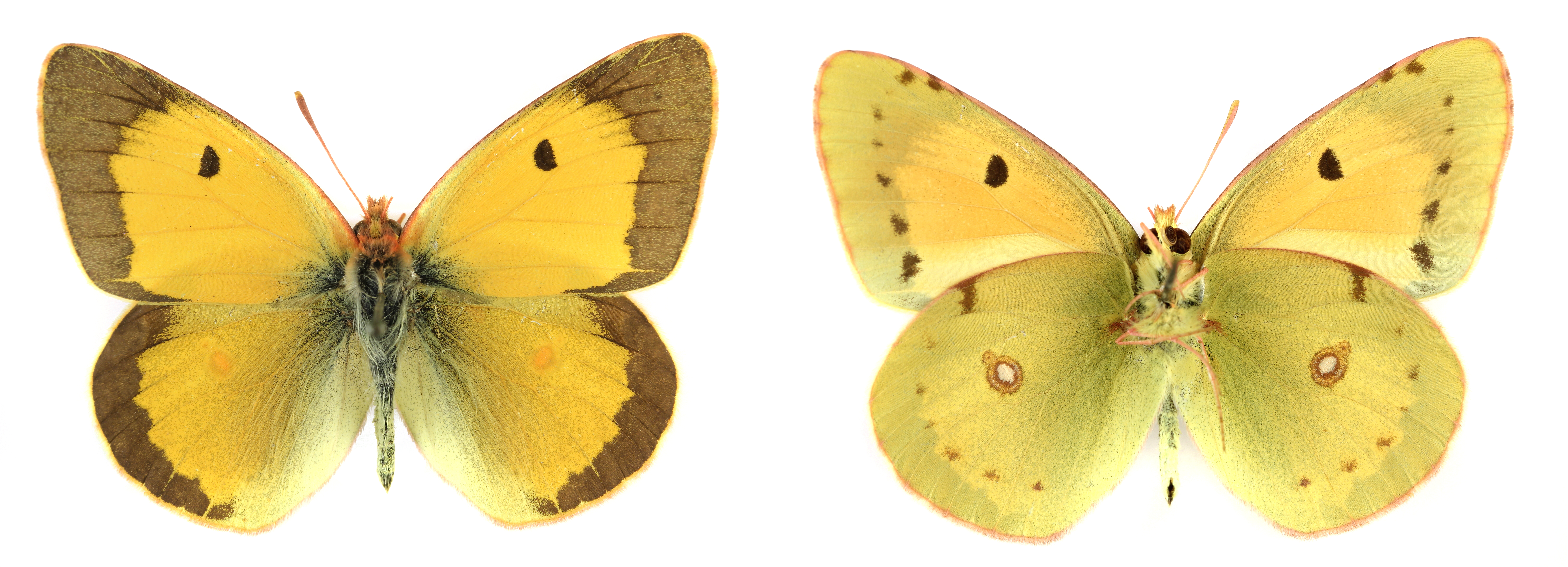 Colias croceus insect collections SLU, Uppsala